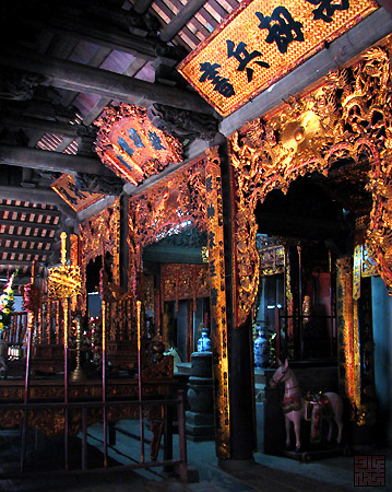 Kiep Bac Shrine, Hai Duong Province, Vietnam